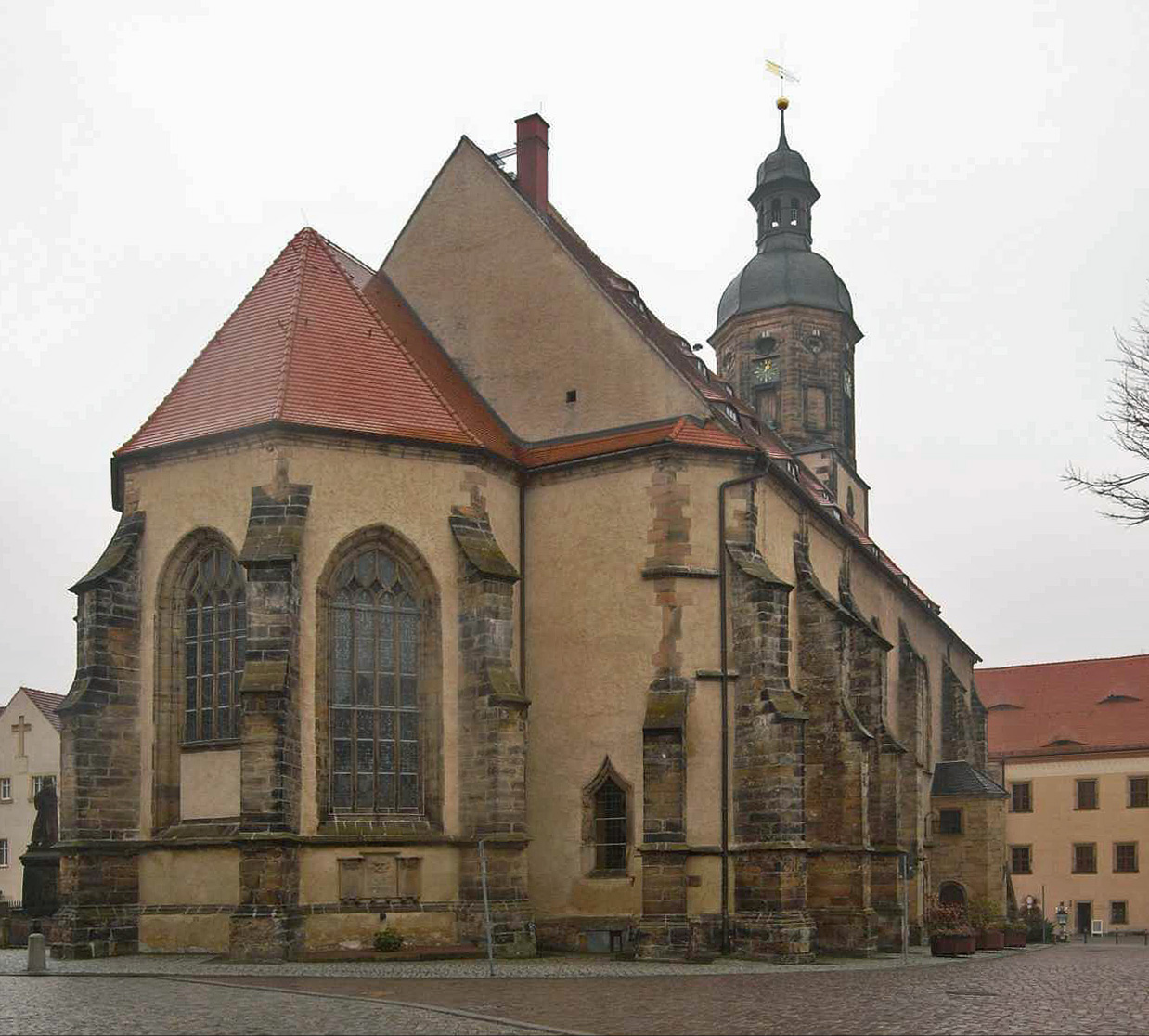 Dippoldiswalde, city church St. Mary and Laurentius (built 13. century)